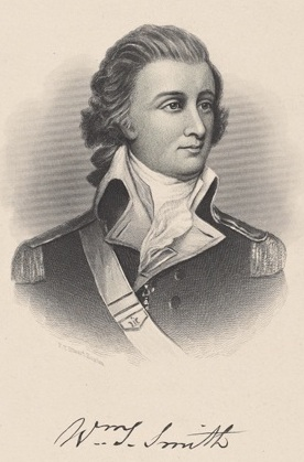 William Stephens Smith